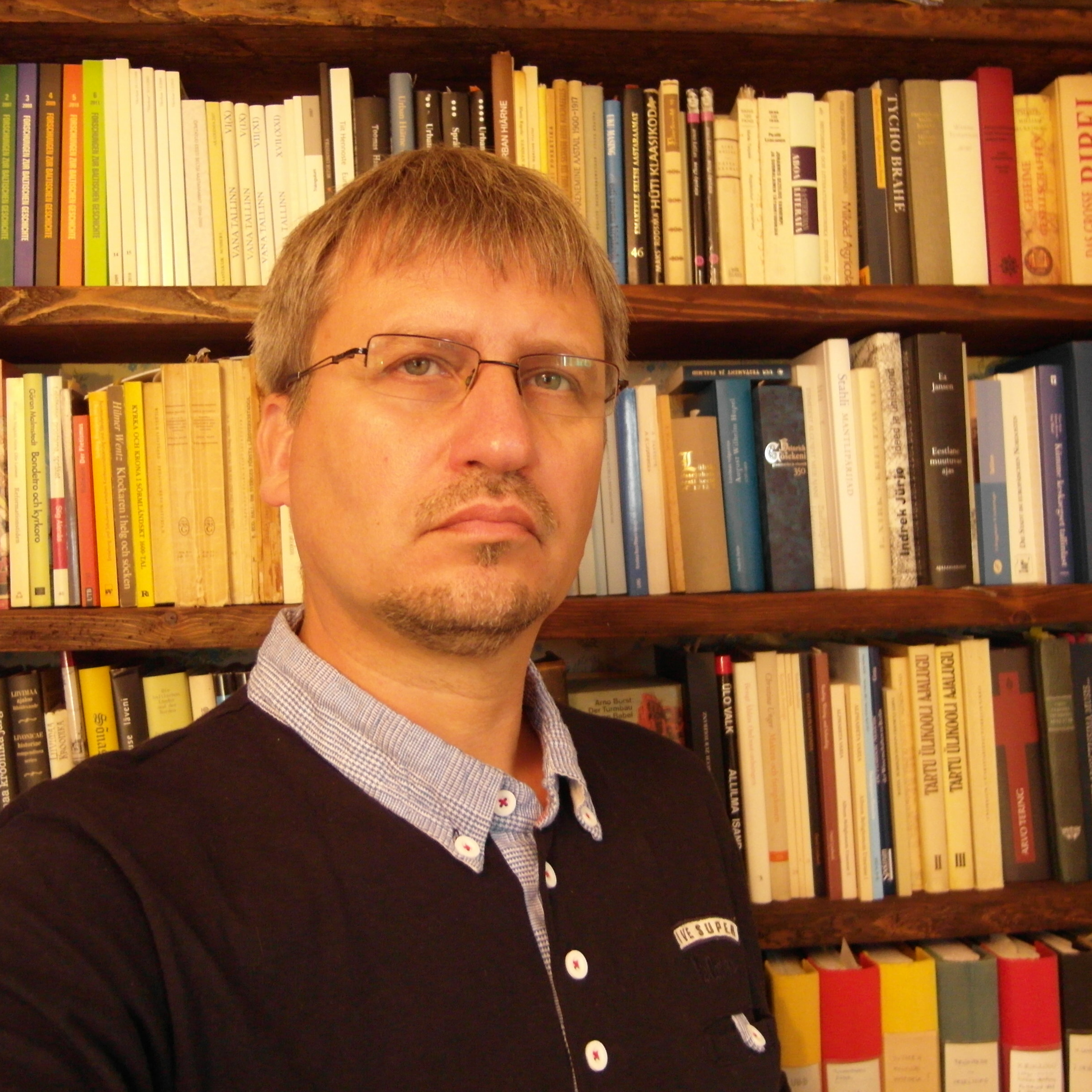 Estonian historian Aivar PõldveeEesti: Eesti ajaloolane Aivar Põldvee